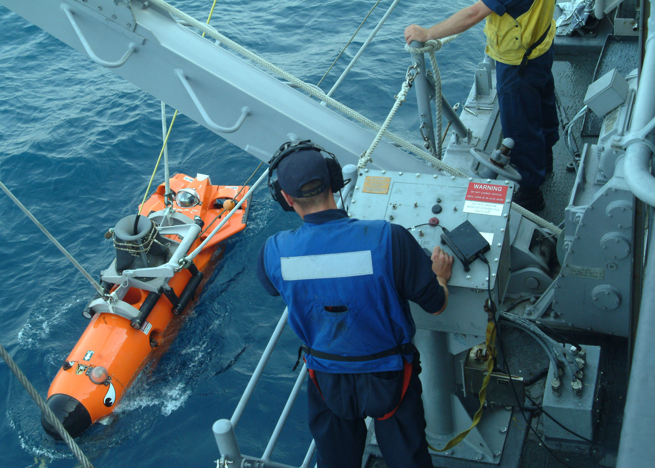 South China Sea (June 12, 2006) - Mineman 3rd Class Dustin Moore, assigned to the mine warfare ship USS Patriot (MCM 7), retrieves a mine neutralization vehicle (MNV) after the device conducted an underwater water mine survey as part of Western Pacific Mine Countermeasures Exercise (WP-MCMEX) in Malaysia. The 3rd annual WP-MCMEX focuses on enhancing cooperation among Western Pacific Naval Symposium (WPNS) navies and maritime safety by conduction detection, identification procedures that may be used in the future to keep important international waterways open. U.S. Navy photo by Mass Communication Specialist 3rd Class Adam R. Cole (RELEASED)